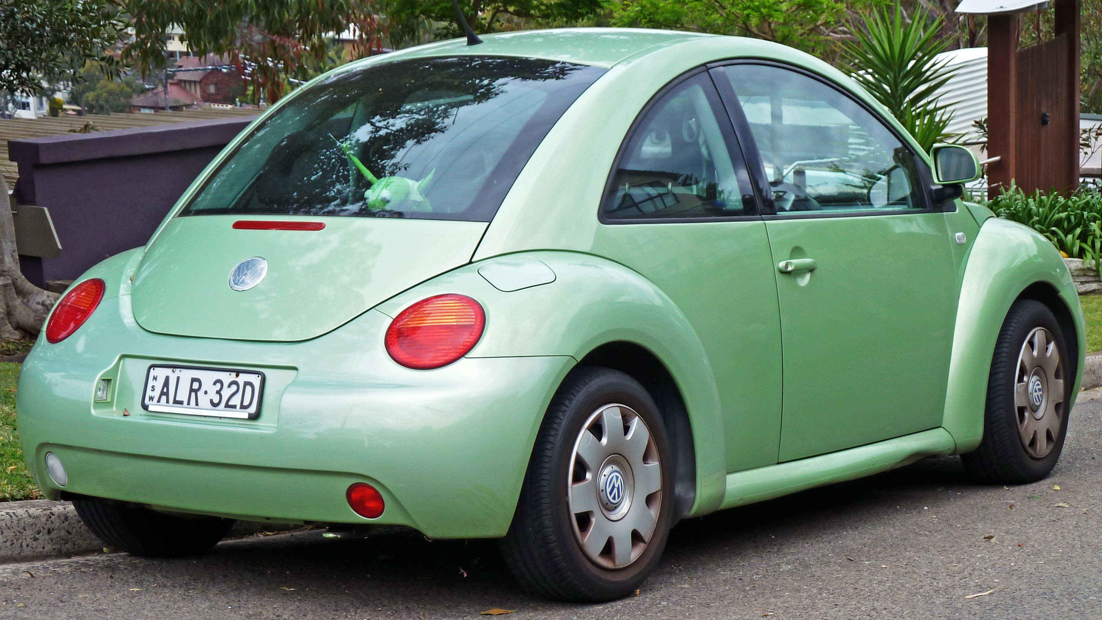 2002 Volkswagen New Beetle (9C MY02.5) 2.0 coupe. Photographed in Gymea Bay, New South Wales, Australia.